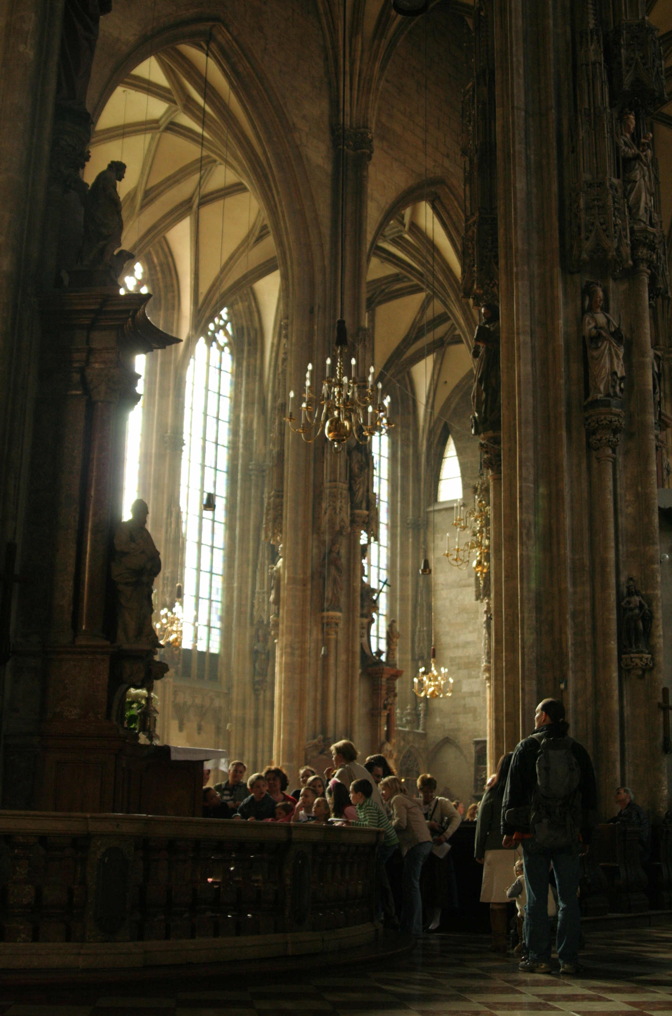 St. Stephen's Cathedral, Vienna; view from side aisle. The altar on the left is known as Der Alte Frauenaltar. Photo taken by Erik Nordblad on 2007-04-20.